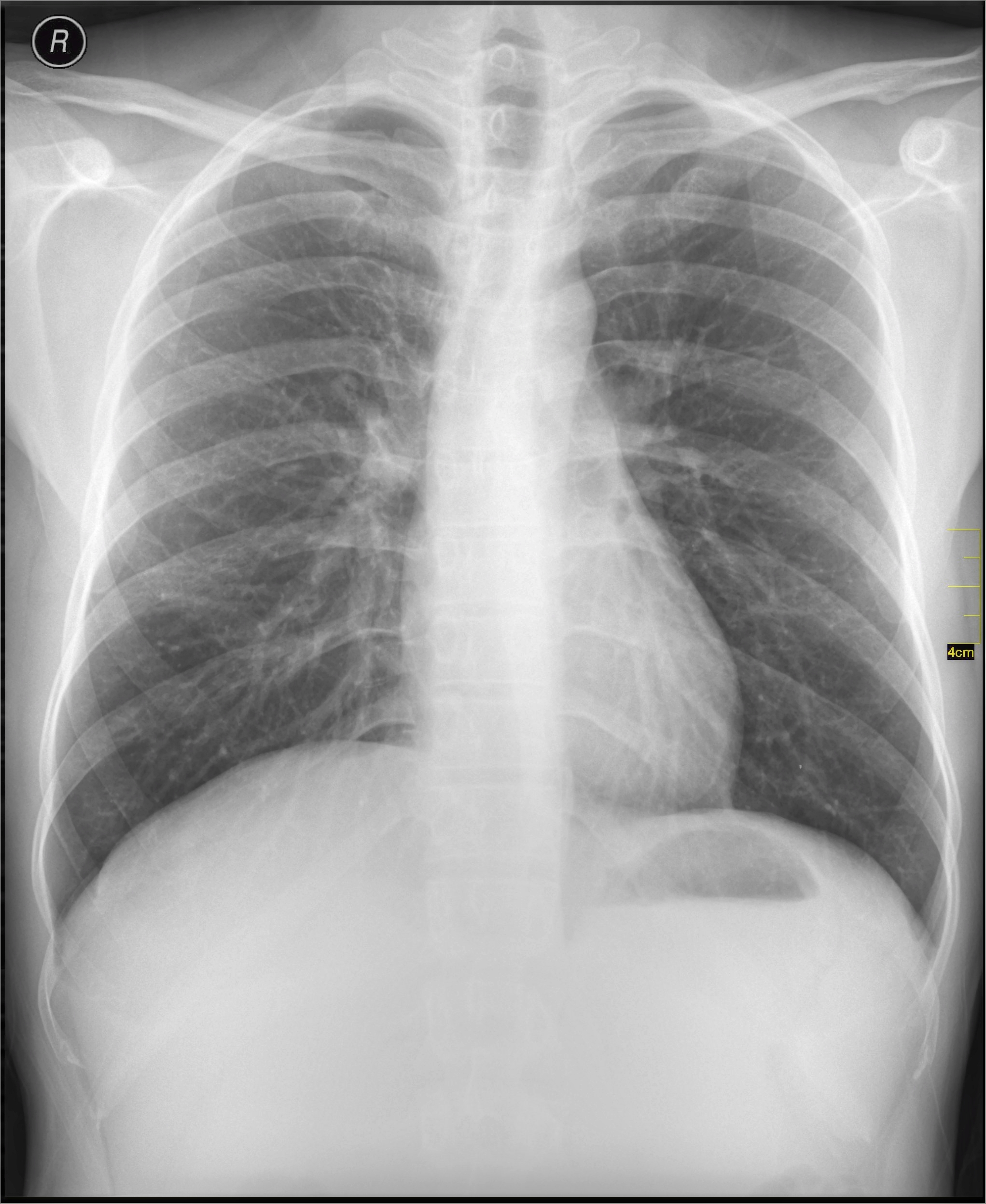 Medical X-rays.